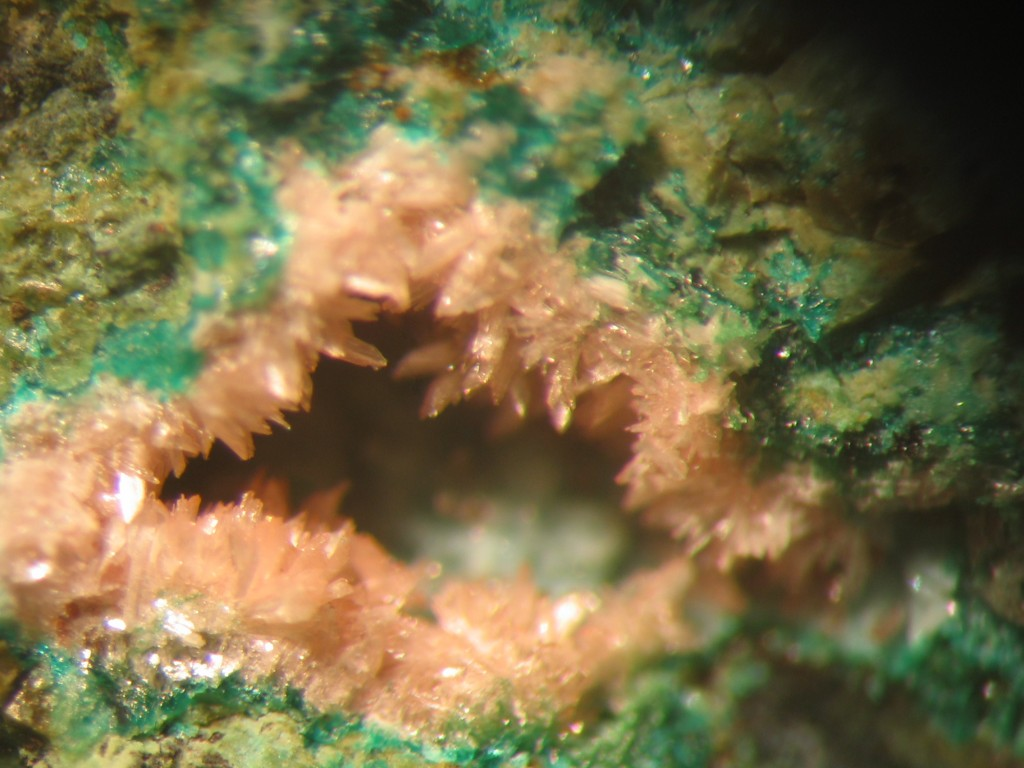 Erythrite, Brochantite Locality: Wheal Edward, Botallack, St Just, St Just District, Cornwall, England, UK Original description: Small 2 x 1.5 mm cavity with brochantite and chalcocite. Collected from a chalcocite vein in the Sub-level below Shallow Adit in August 1988. Paul G. Oldfield collection